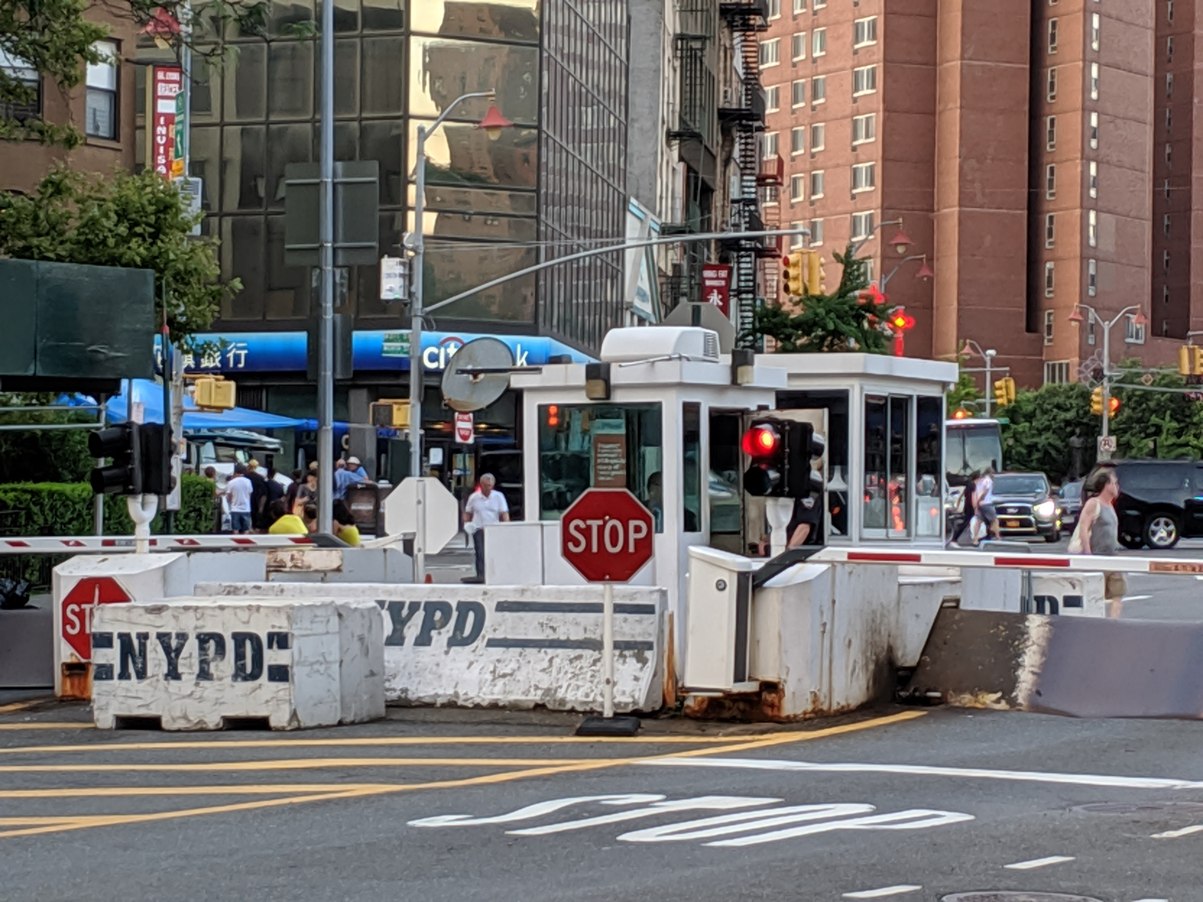 a mobile traffic barrier operated by the NYPD in lower manhattan